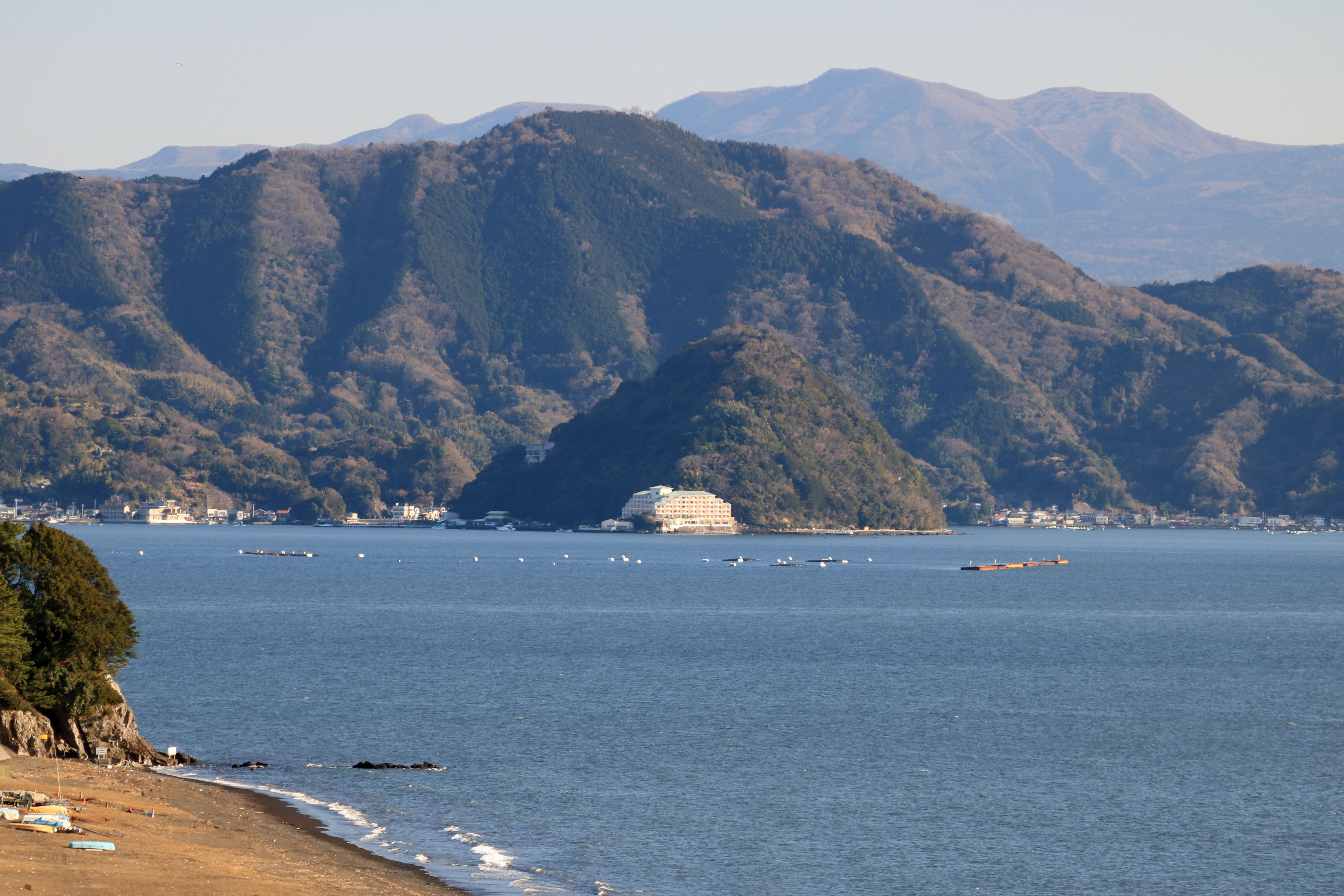 Awa Island and Mount Hottanjō seen from Byuo in Port of Numazu, Numazu, Shizuoka prefecture, Japan.